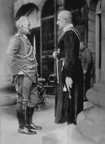 Kaiser Wilhelm II and Hetman of Ukraine Pavlo Skoropadskyi, Berlin, 1918